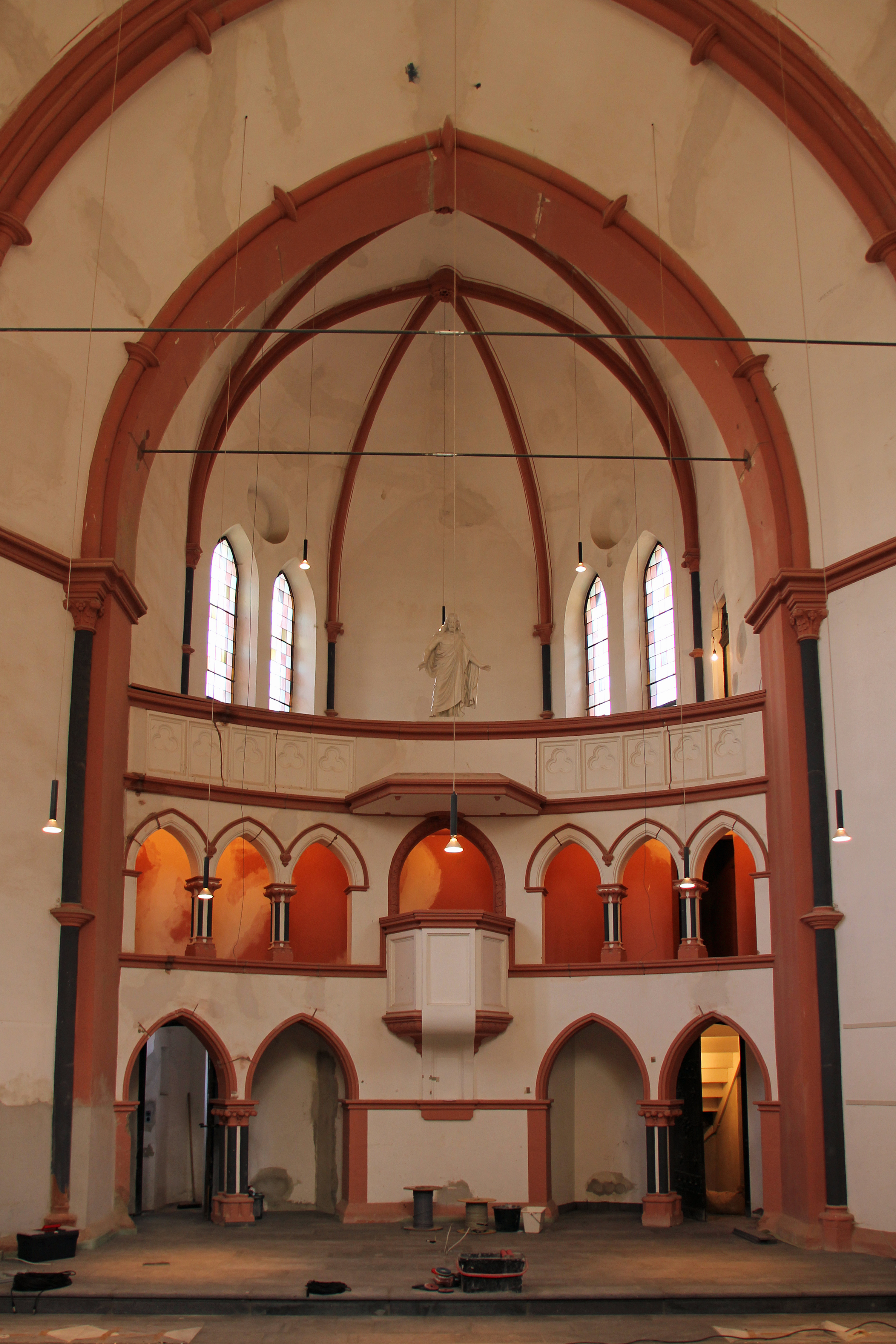 Evangelical Church in Koblenz-Pfaffendorf